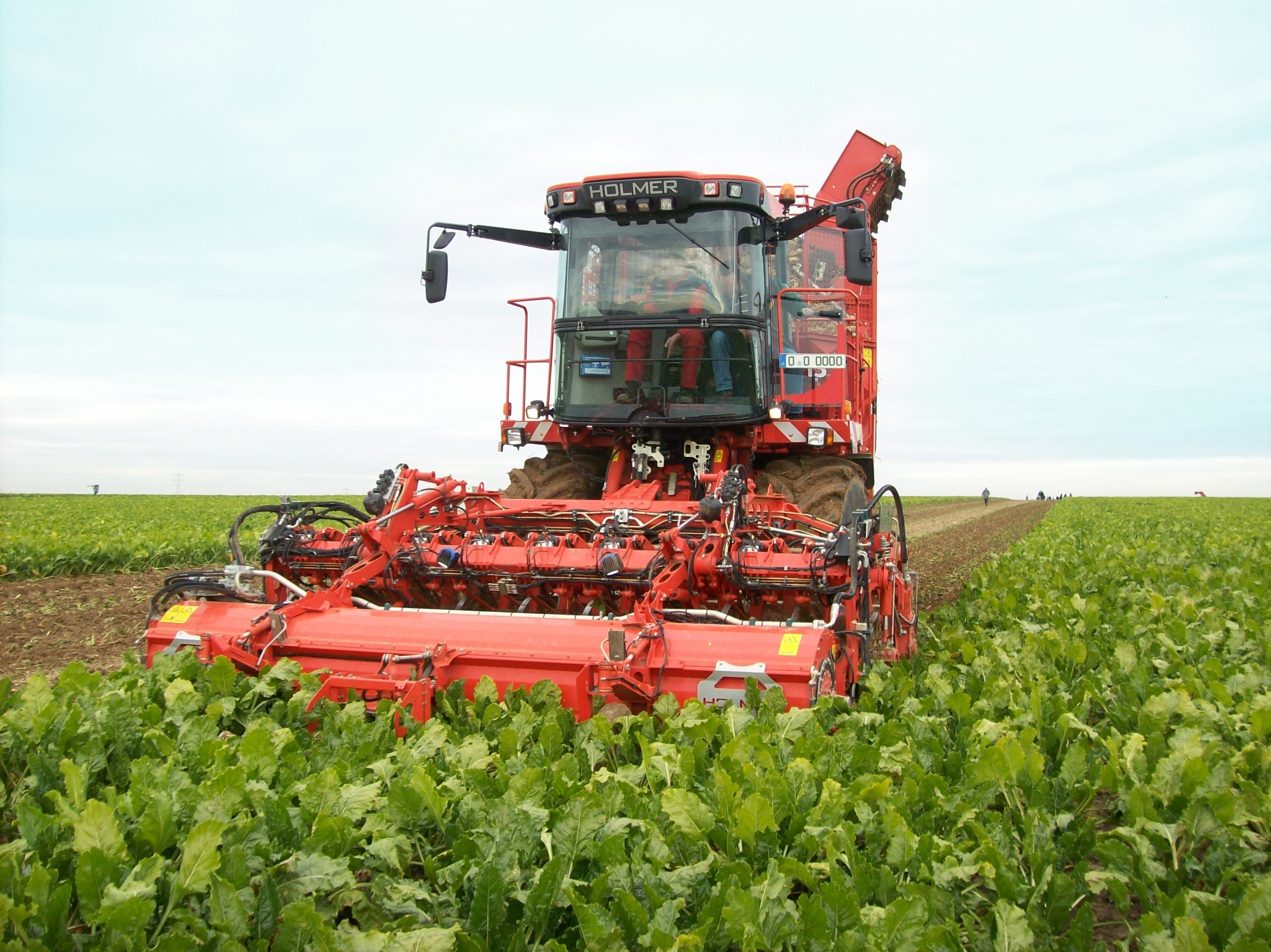 Holmer; 9-row beet harvester in action; year of manufacture 2012